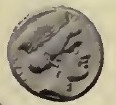 Greek coins and their parent cities (1902) Author: Ward, John, 1832-1912; Hill, George Francis, Sir, 1867-1948 Subject: Coins, Greek; Numismatics, Greek; Greece -- Description, geography; Italy -- Description and travel; Turkey -- Description and travel Publisher: London : Murray Possible copyright status: NOT_IN_COPYRIGHT Language: English Call number: AKB-0671 Digitizing sponsor: MSN Book contributor: Robarts - University of Toronto Collection: toronto Scanfactors: 7